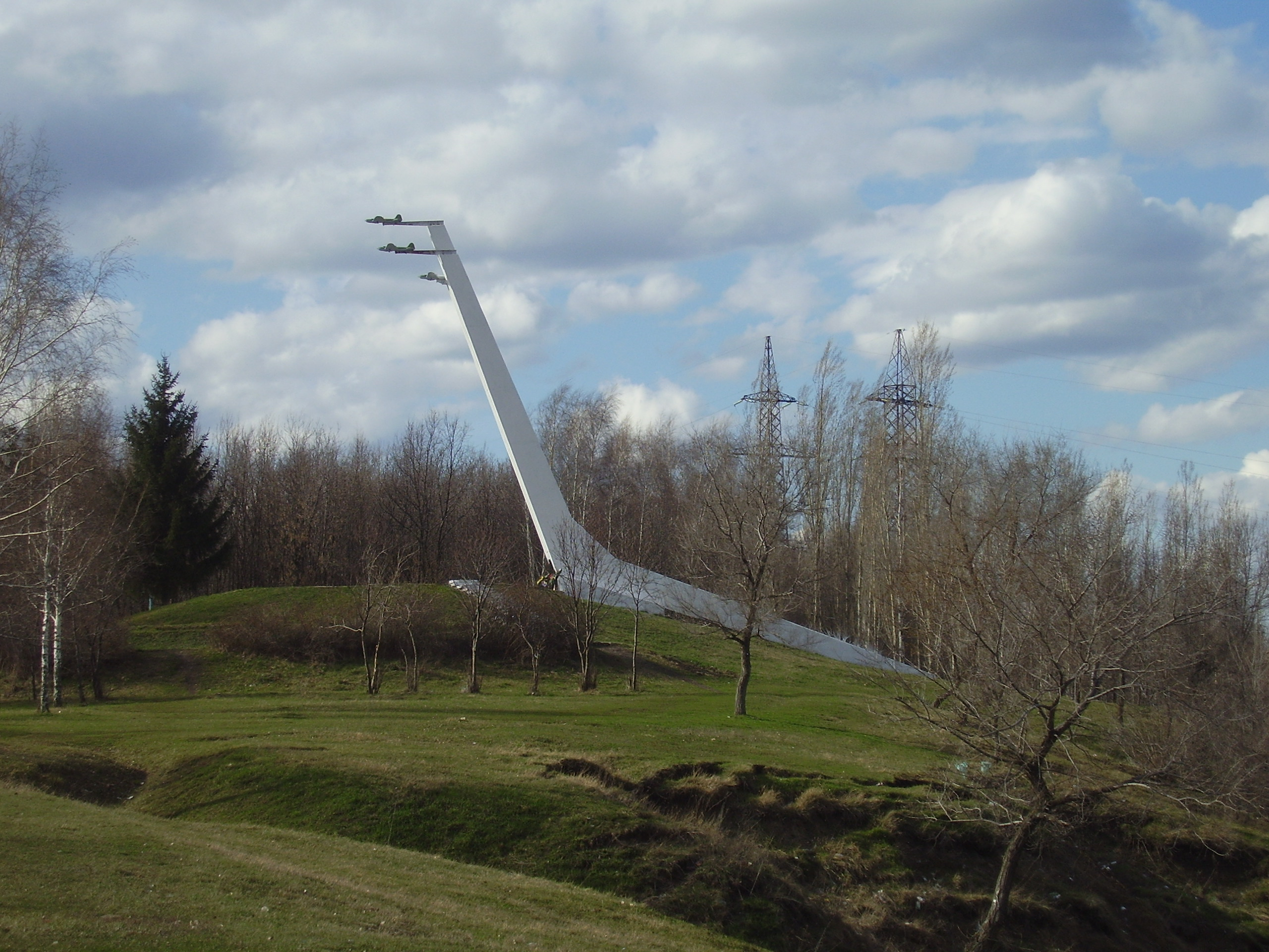 town Semiluki, Monument - aviators 2nd Air Army of the Voronezh Front.